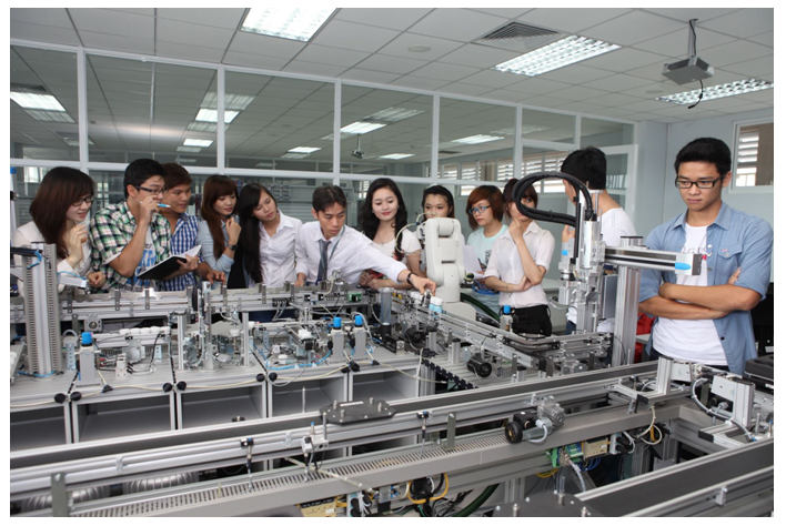 Eastern International University